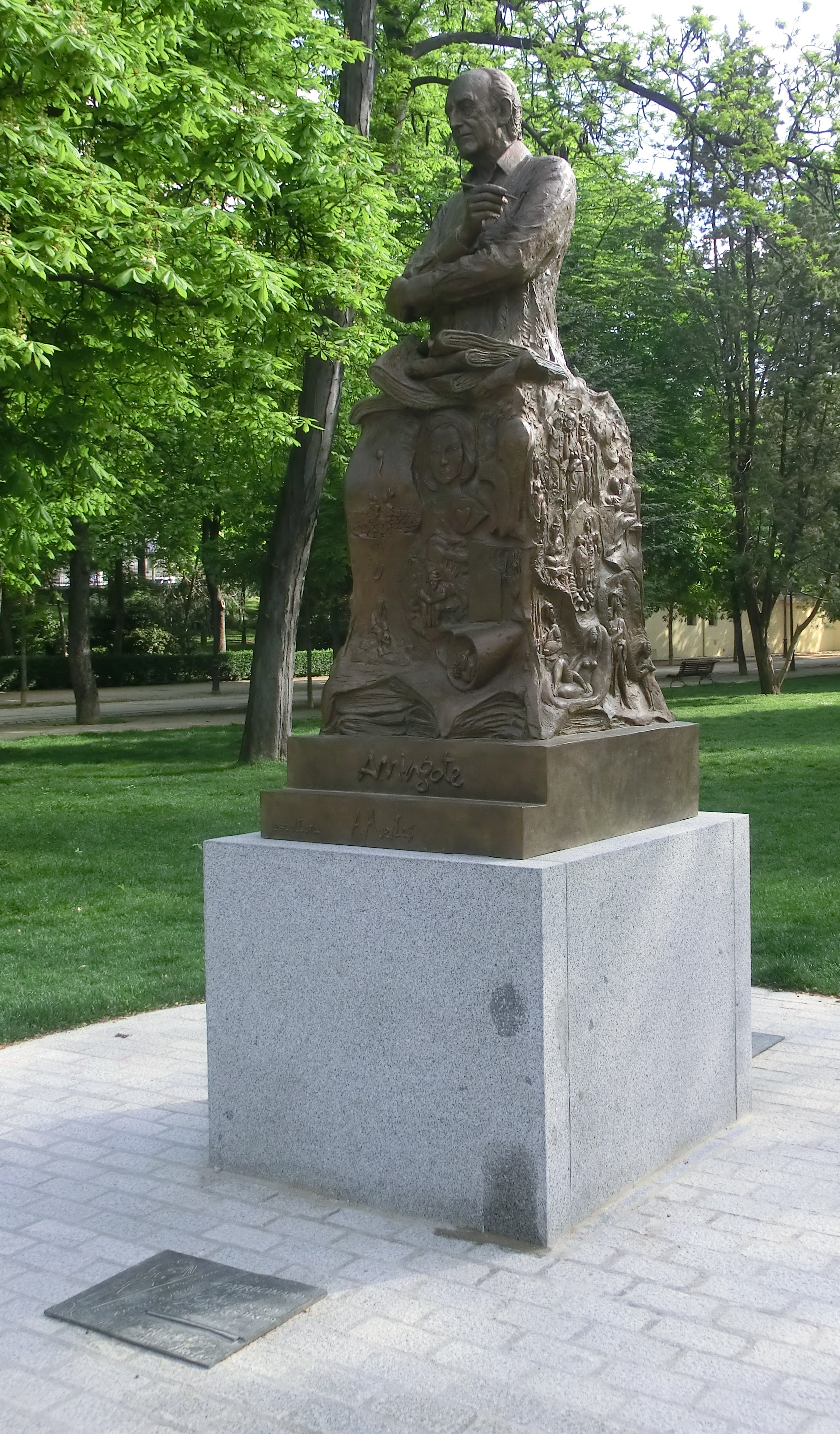 Monument to Antonio Mingote by A. Huertas in the Retiro park in Madrid, Spain.